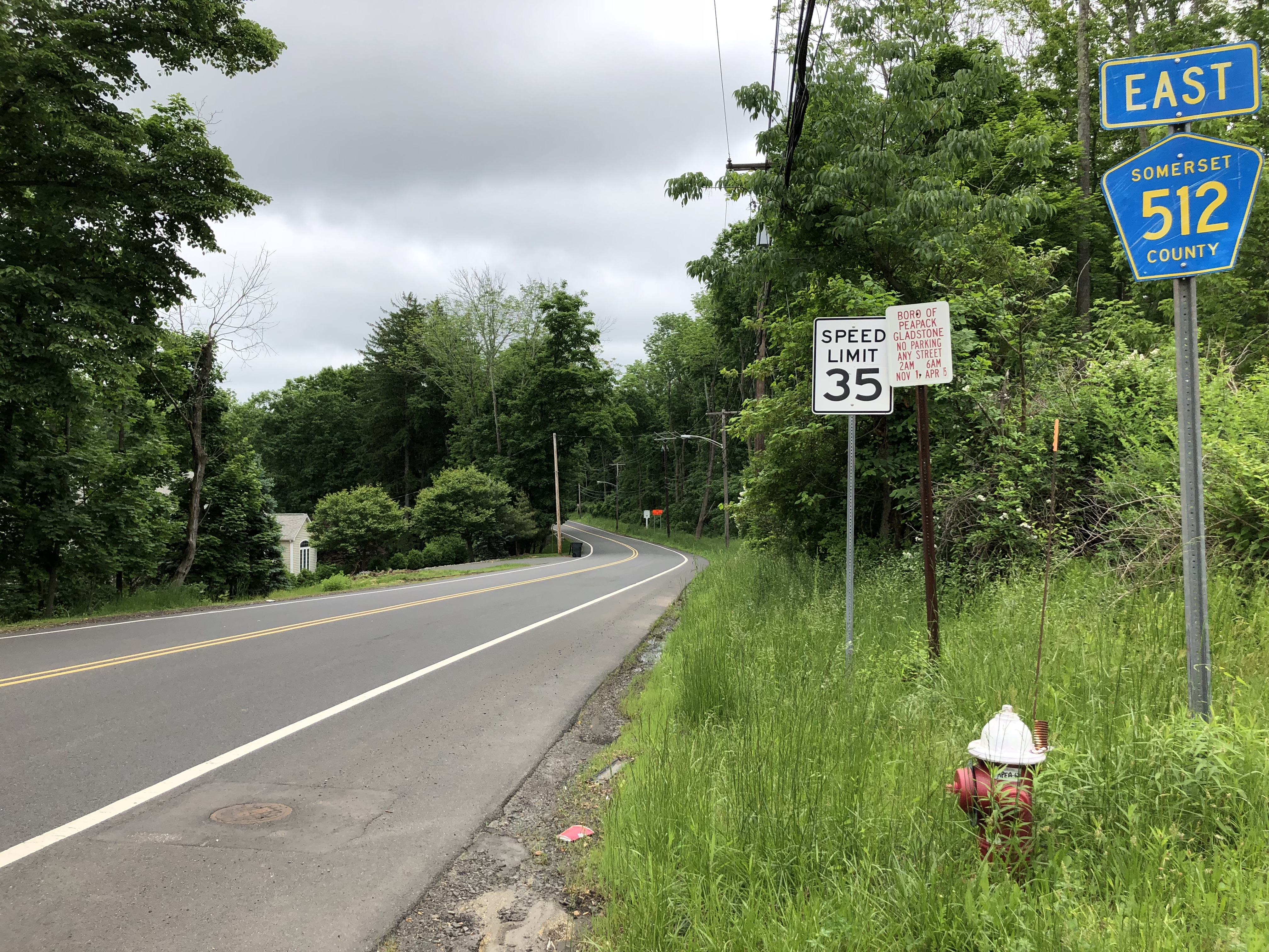 View east along Somerset County Route 512 (Pottersville Road) at U.S. Route 206 in Peapack-Gladstone, Somerset County, New Jersey